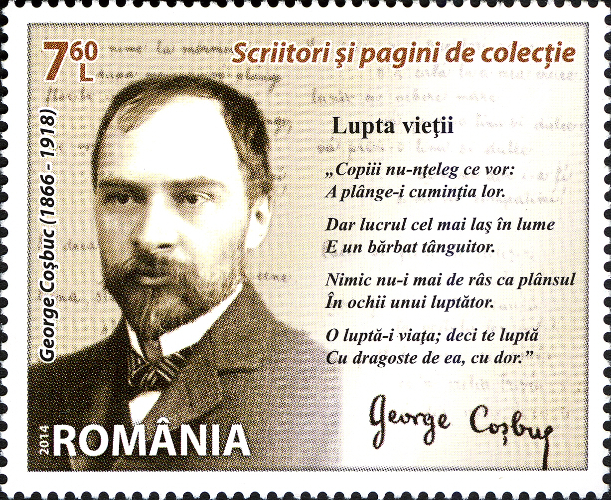 Romanian Writers - George Coșbuc